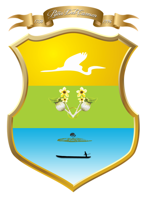 Escudo oficial de pijiño del carmen